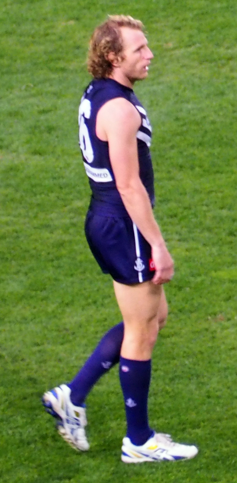 David Mundy playing for Fremantle Football Club at Patersons Stadium, Round 9, 17 May 2014